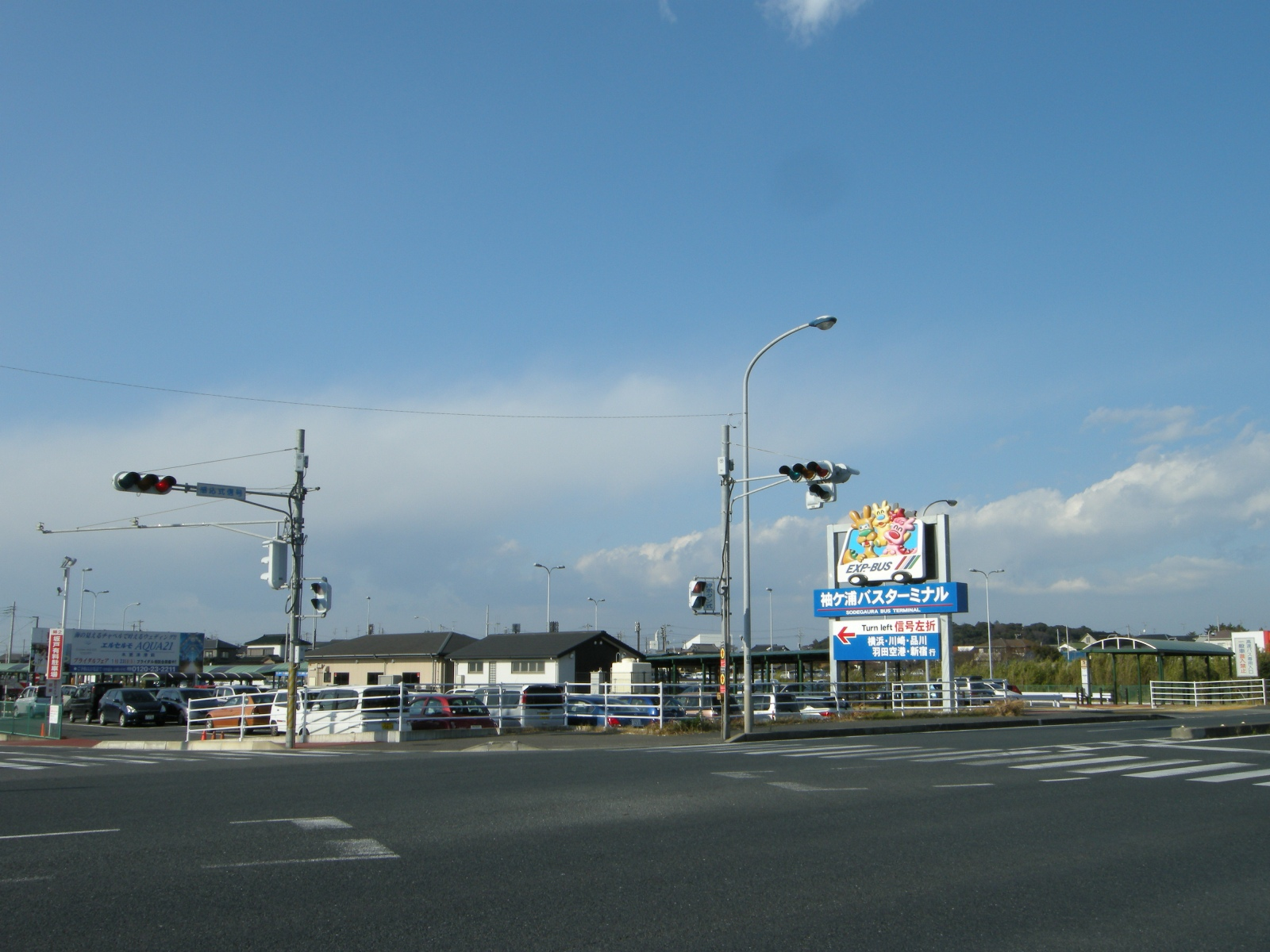 The overview of Sodegaura Bus Terminal in Chiba, Japan